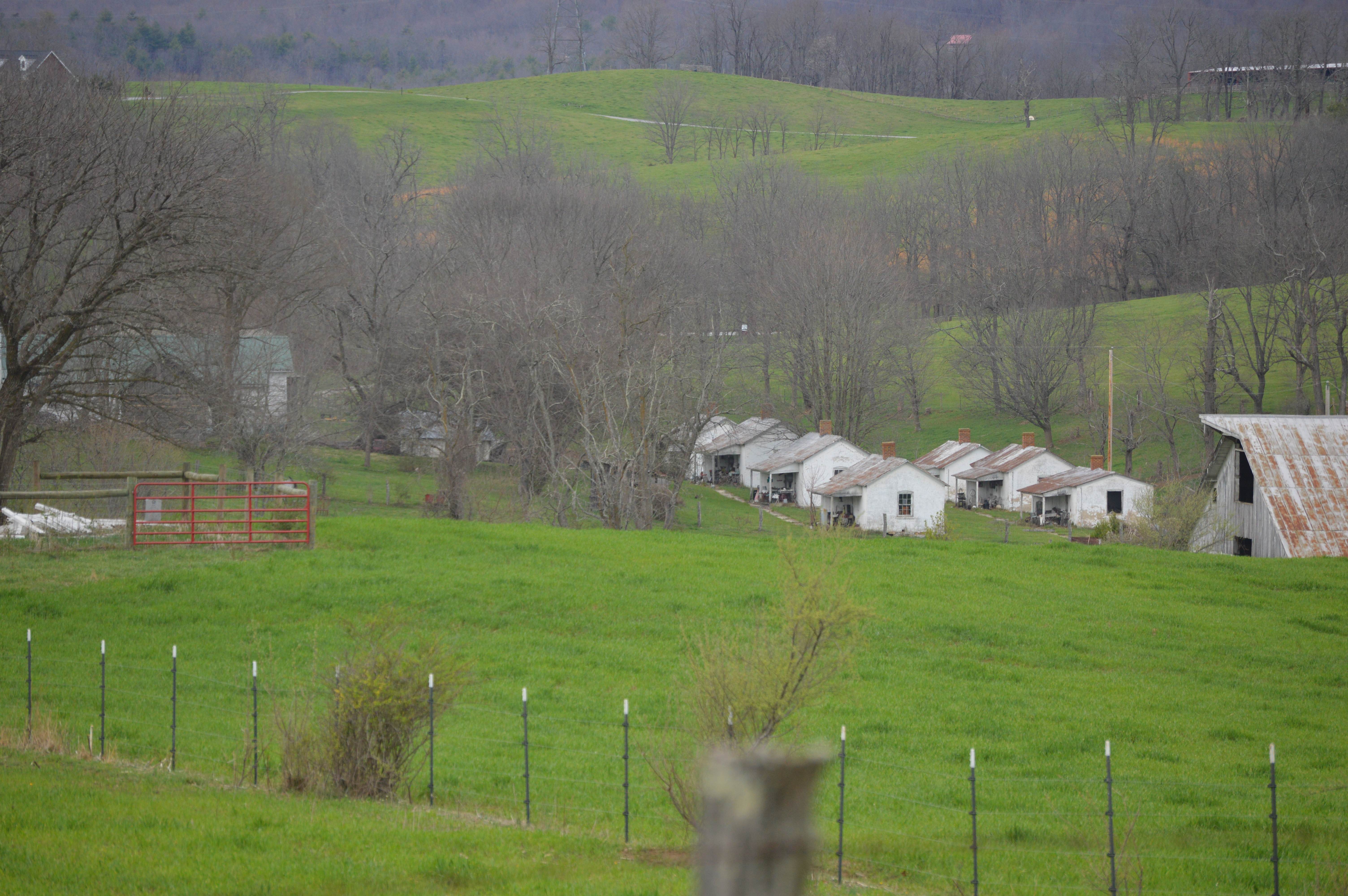 Distant view from the east (from Turley Farm Road) of cottages at the Wythe County Poorhouse Farm, located along Peppers Ferry Road east of Wytheville in Wythe County, Virginia, United States. The complex is listed on the National Register of Historic Places.